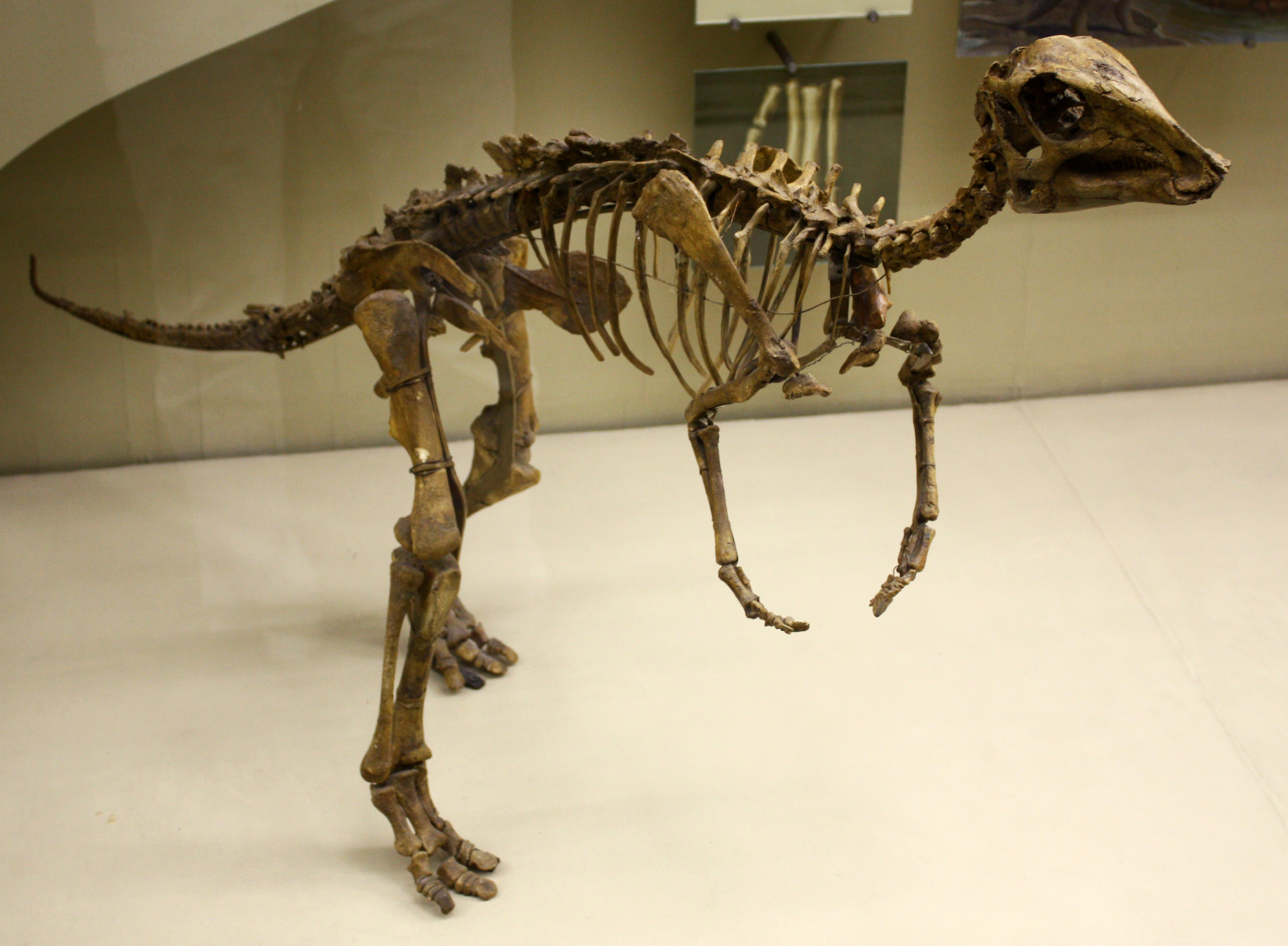 Skeleton of "Gadolosaurus", formerly assigned to Arstanosaurus sp.